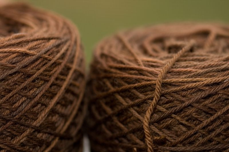 Tess Designer Yarns Worsted Merino